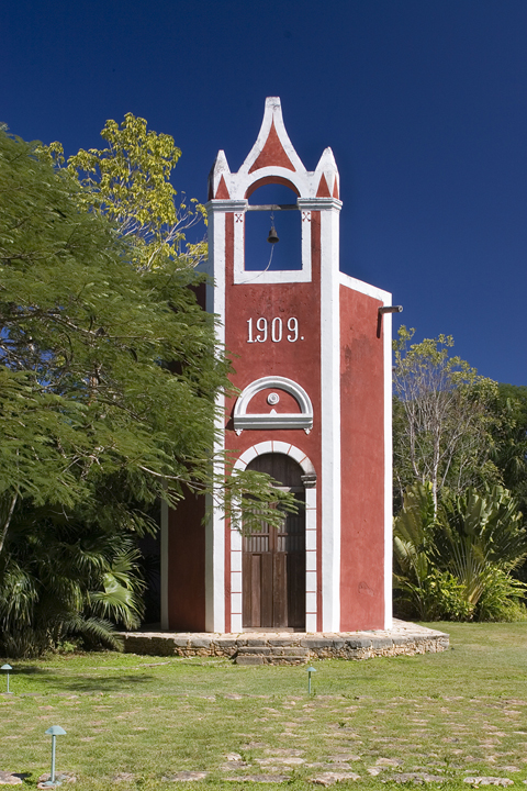 Chappel of The Hacienda Santa Rosa